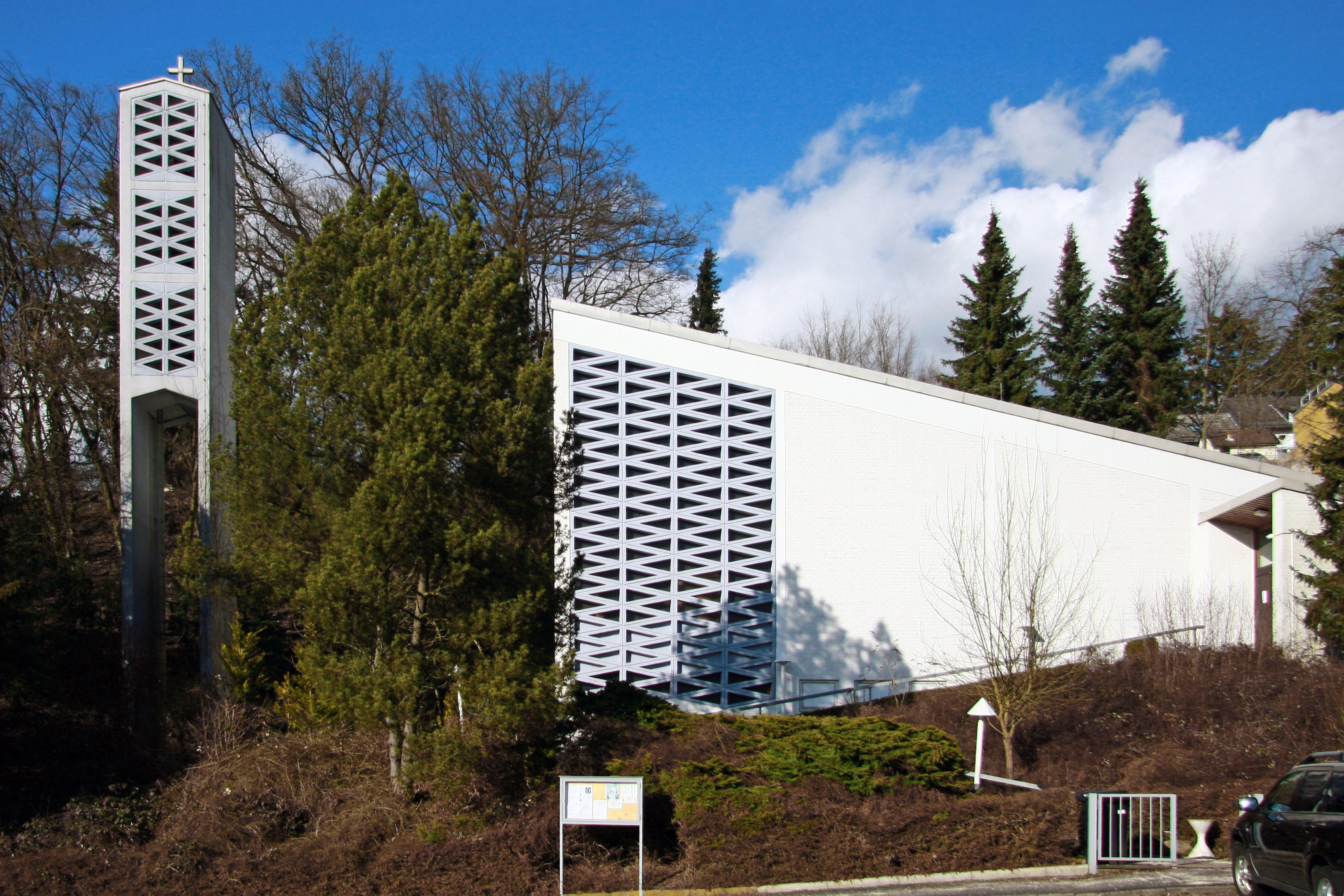 Saint John's Church in Wiesbaden-Rambach